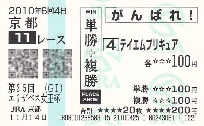 JRA support betting ticket